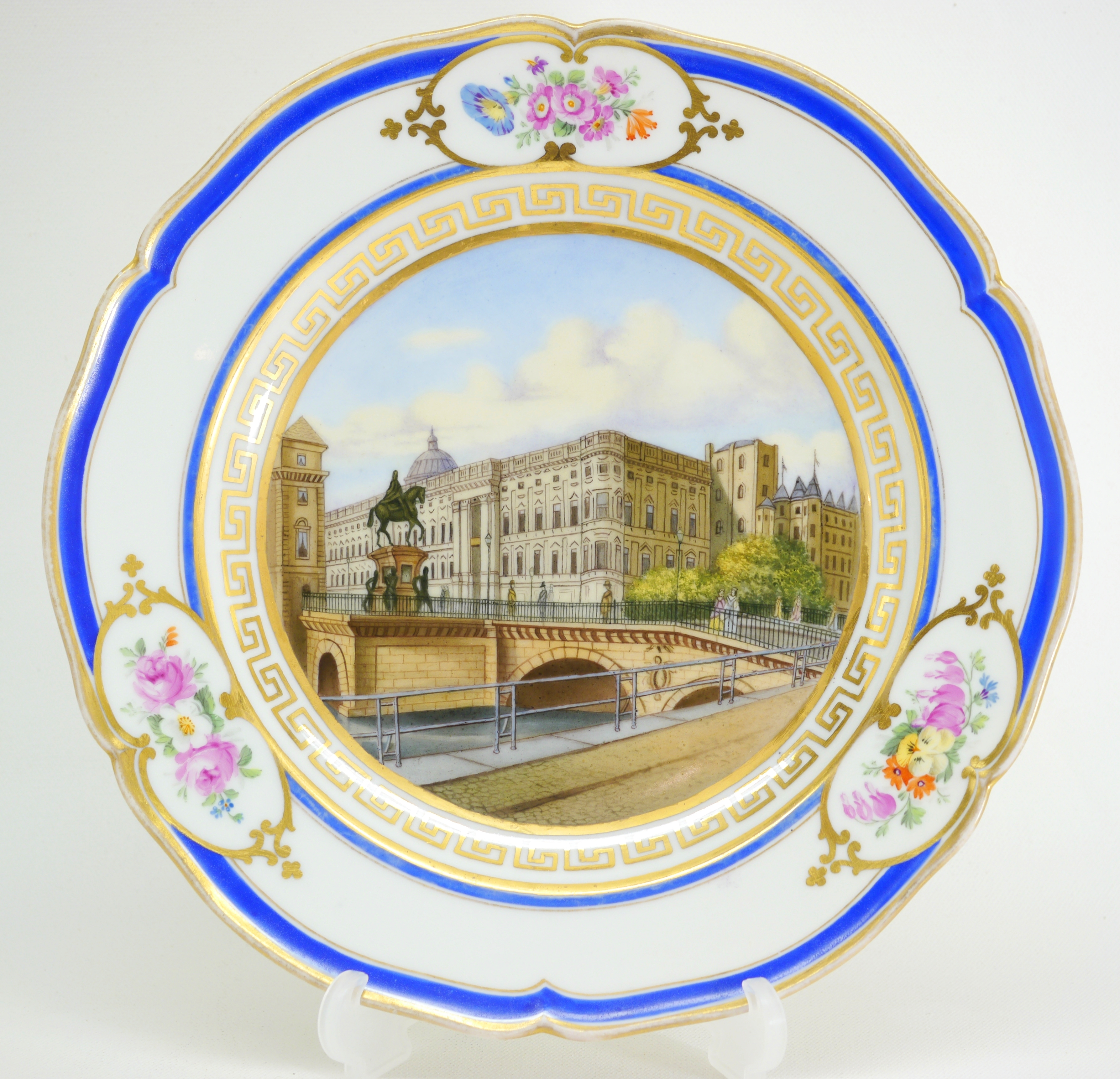 castle of Berlin with the long bridge, left the sculpture of the great elector of Prussia